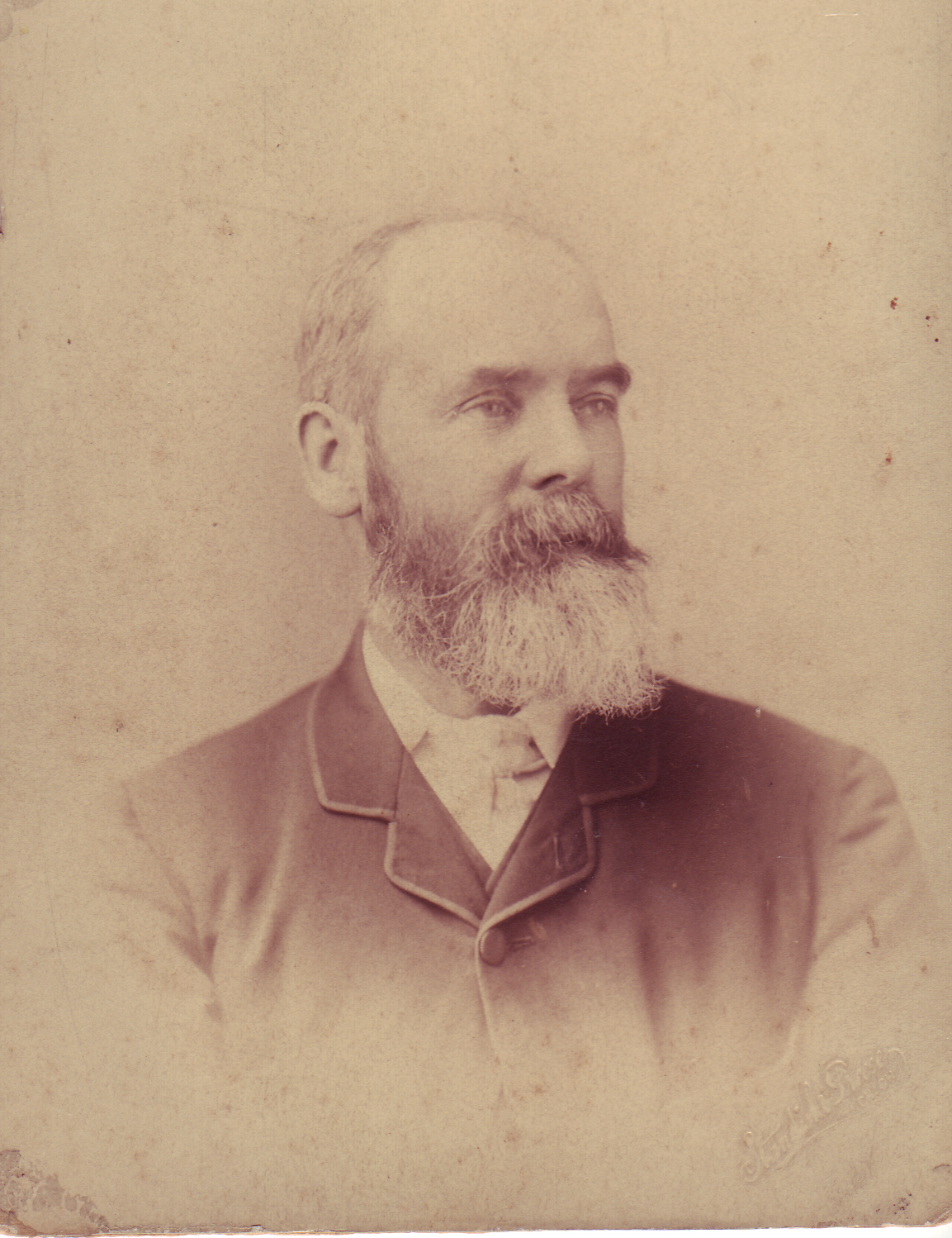 Edward Hiorns (1838–1912), owner of Linwood House from 1889 until his death, was a hotelier and Christchurch City Councillor.